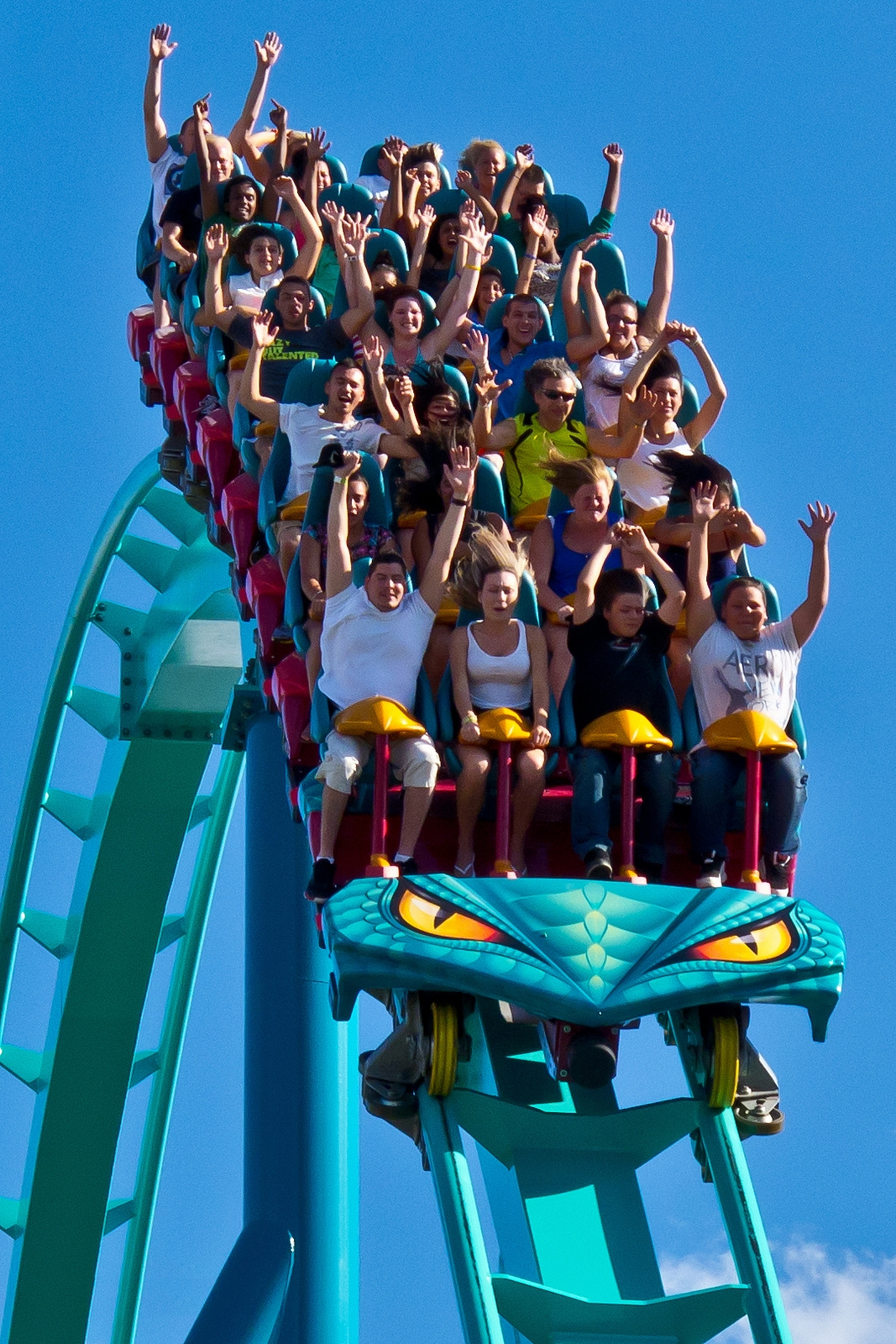 This is a picture of one of the three trains for the Leviathan roller coaster located at Canada's Wonderland while going over one of the airtime hills along the layout.